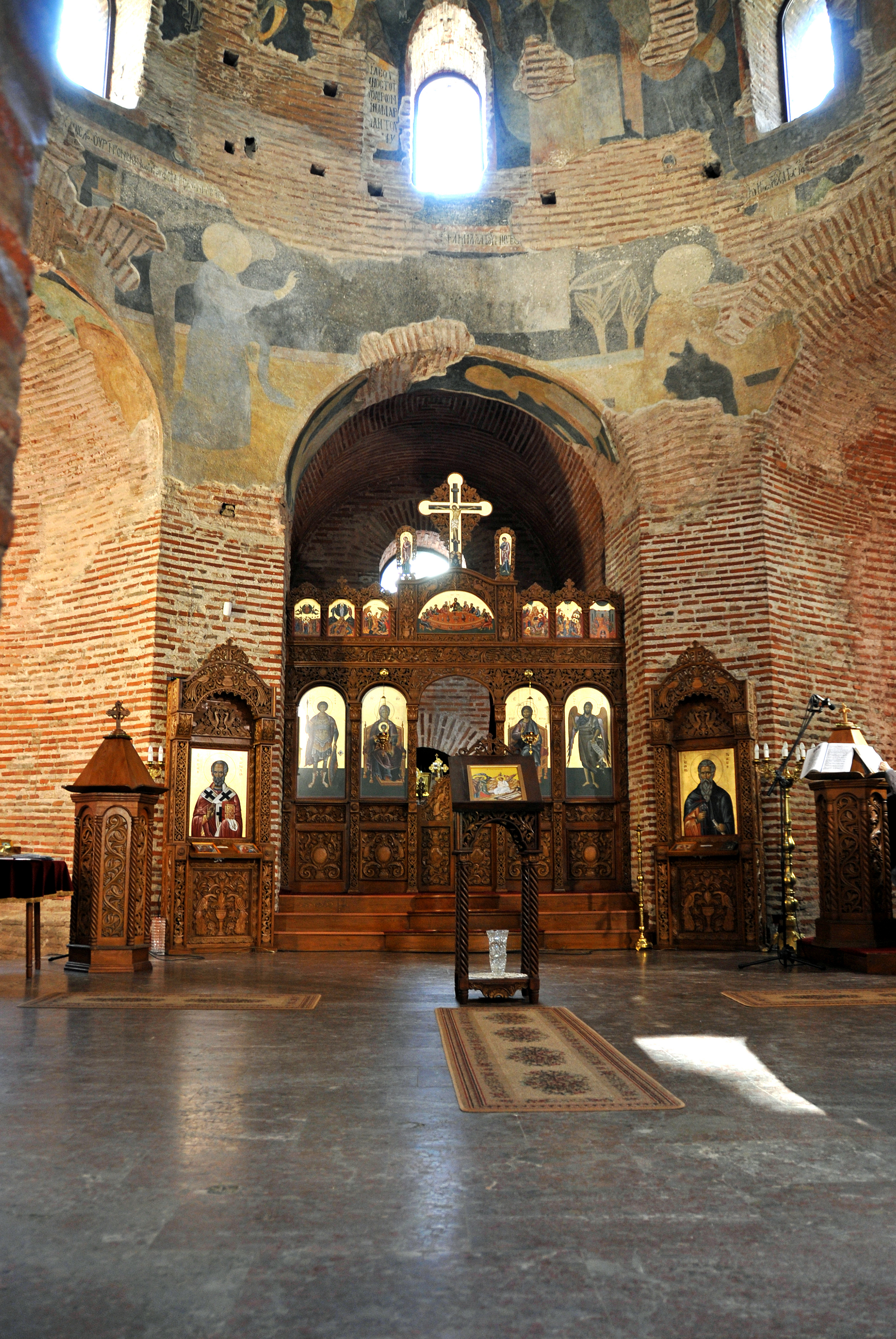 PLEASE, no multi invitations, glitters or self promotion in your comments, THEY WILL BE DELETED. My photos are FREE for anyone to use, just give me credit and it would be nice if you let me know, thanks - NONE OF MY PICTURES ARE HDR. The Church of St George is an Early Christian red brick rotunda that is considered the oldest building in Sofia. Built by the Romans in the 4th century AD, it is mainly famous for the 12th-14th century frescoes. Painted over during the Ottoman period, when the building was used as a mosque, these frescoes were only uncovered in the 20th century.